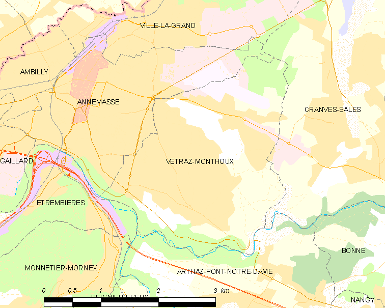 Map of French municipality Vétraz-Monthoux